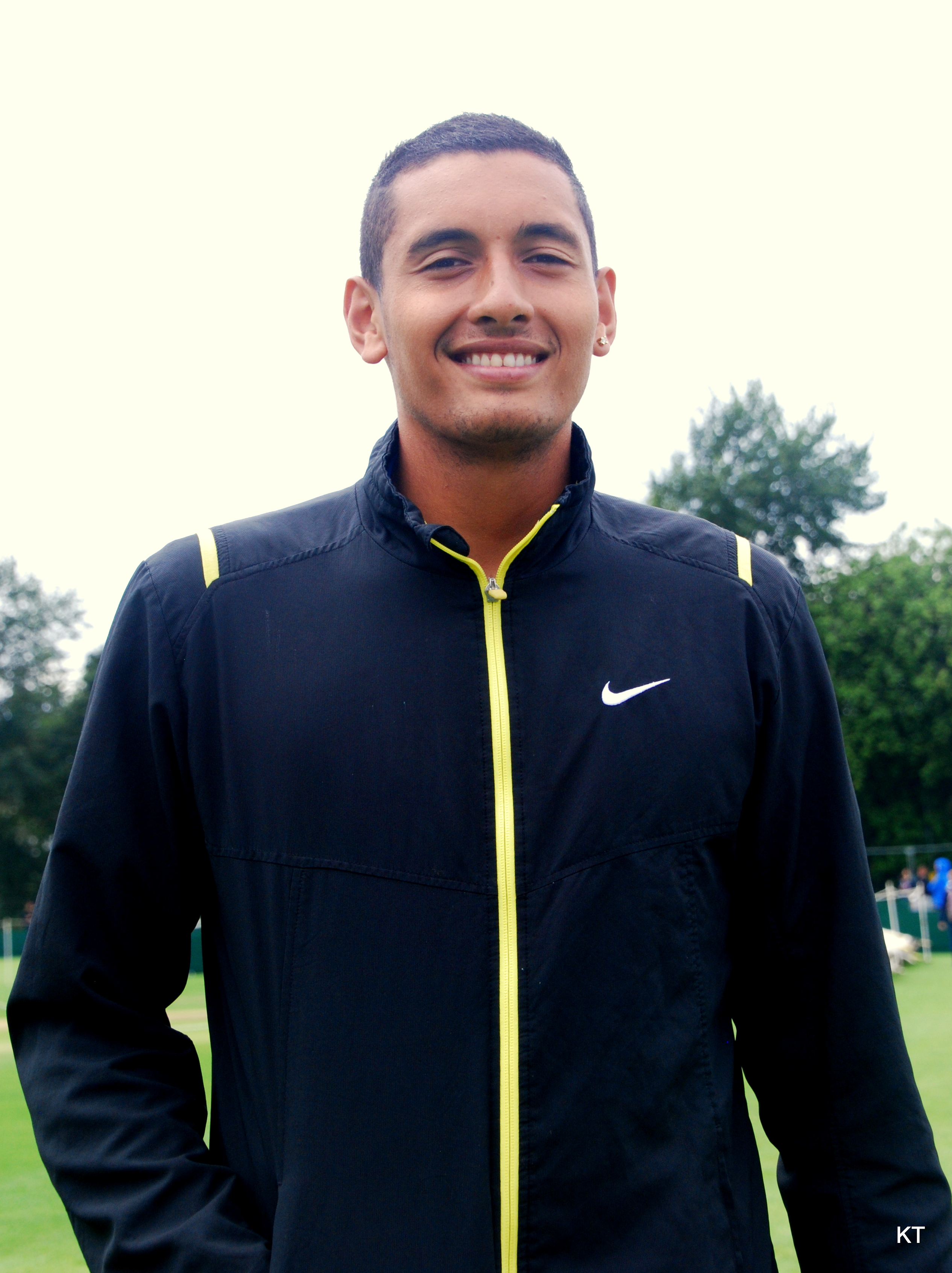 Supporting some of his fellow Australians at Wimbledon qualifying.